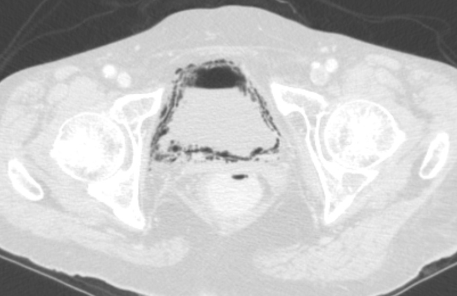 This image is part of a series which can be scrolled interactively with the mousewheel or mouse dragging. This is done by using Template:Imagestack. The series is found in the category Computed tomography of emphysematous cystitis case 001. Emphysematöse Zystitis in der Computertomographie (Lungenfenster zur besseren Kontrastierung der Gaseinlagerungen).